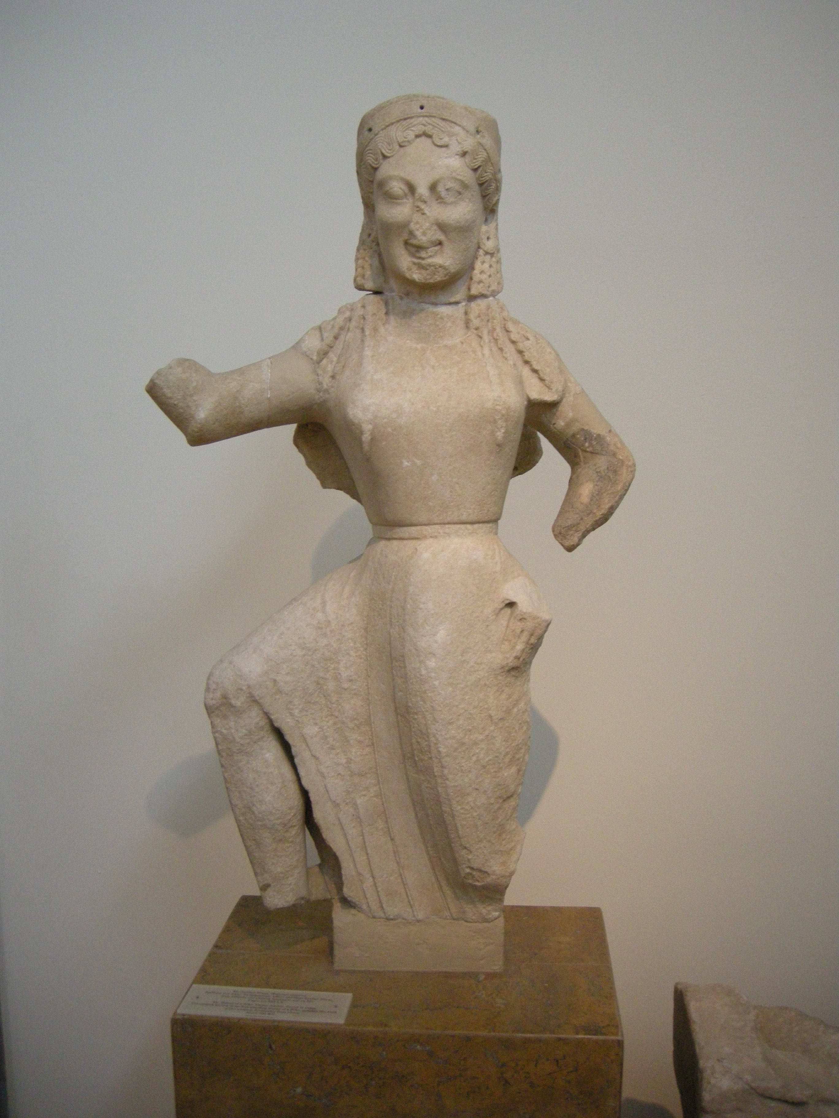 Statue of Nike running to the right. She wears a peplos and a chiton. On her head she wears a stephane, to which metal ornaments were attached. Holes on the ears also means the original presence of metal earrings. The earliest known stone free-standing statue of a Nike.